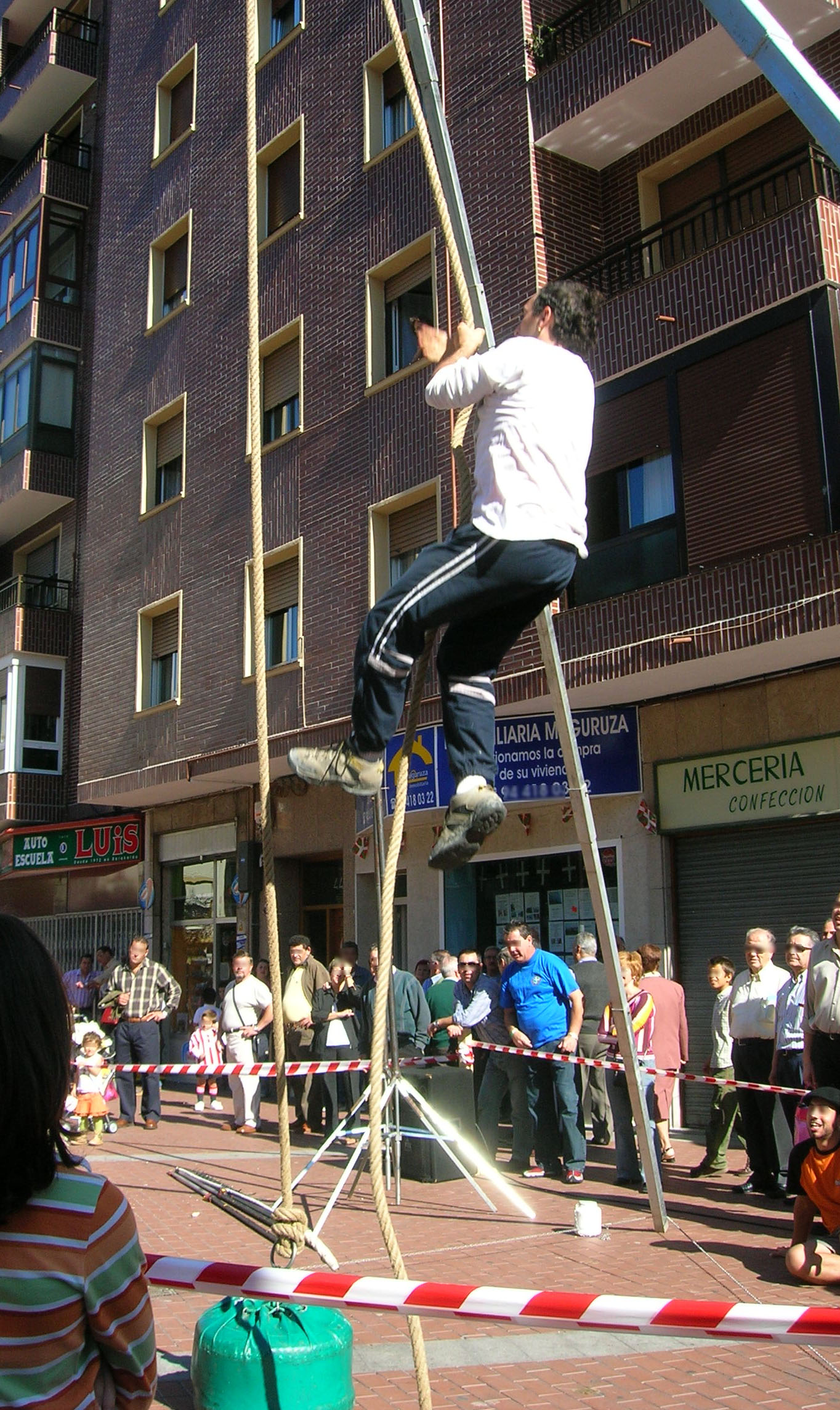 Deportista alzado en una prueba de levantamiento de fardo con polea. Fiestas de Santa Teresa, Barakaldo.